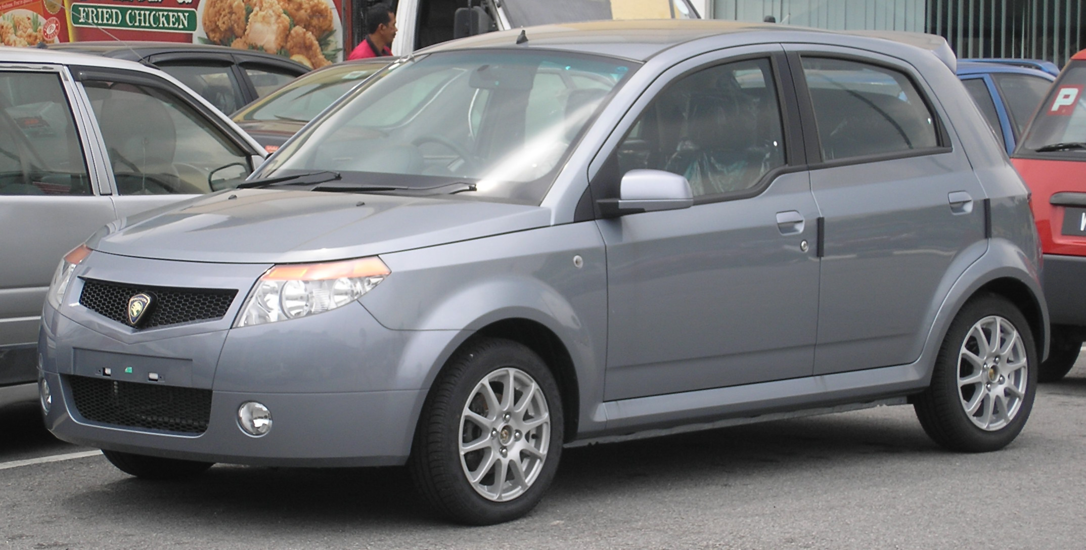 Front-side shot of a first generation, first facelift, and unregistered Proton Savvy, in Serdang, Selangor, Malaysia.